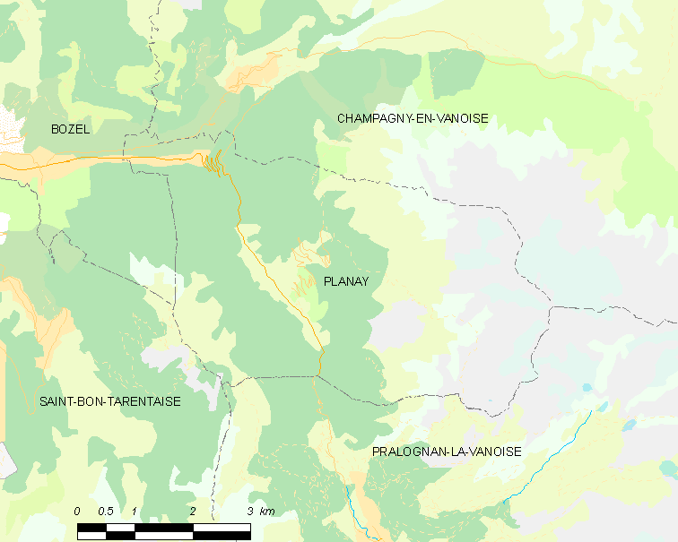 Map of French municipality